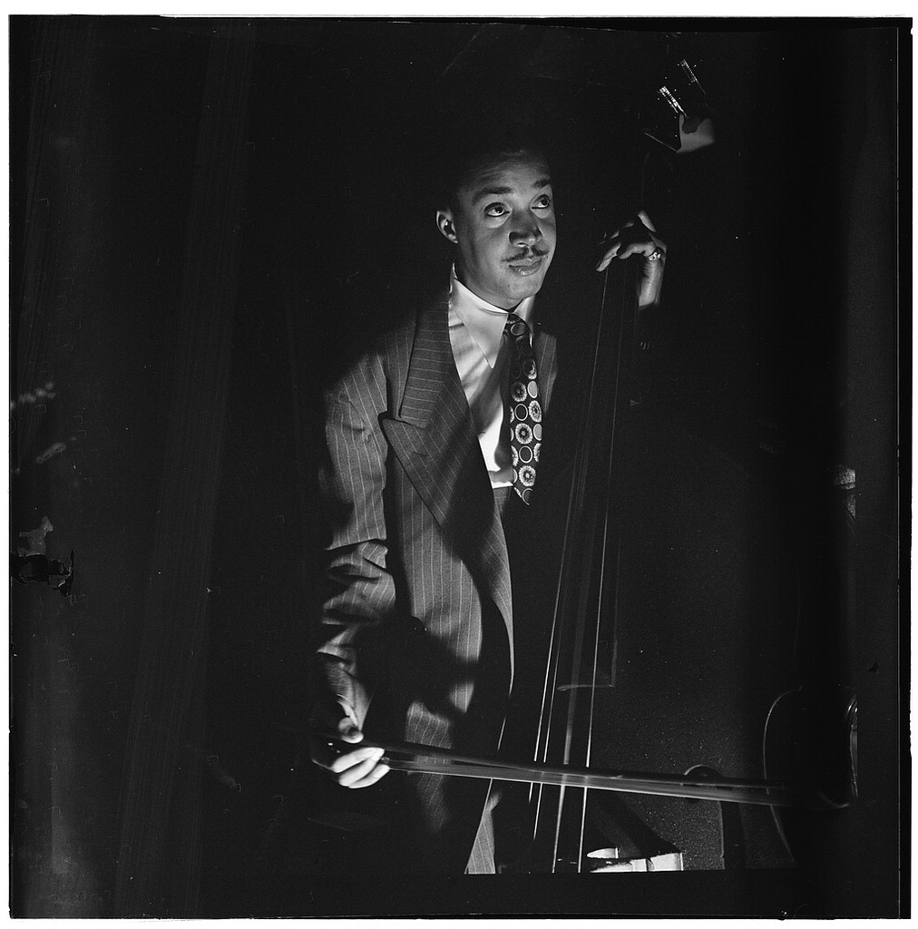 Portrait of Slam Stewart, Three Deuces(?), New York, N.Y